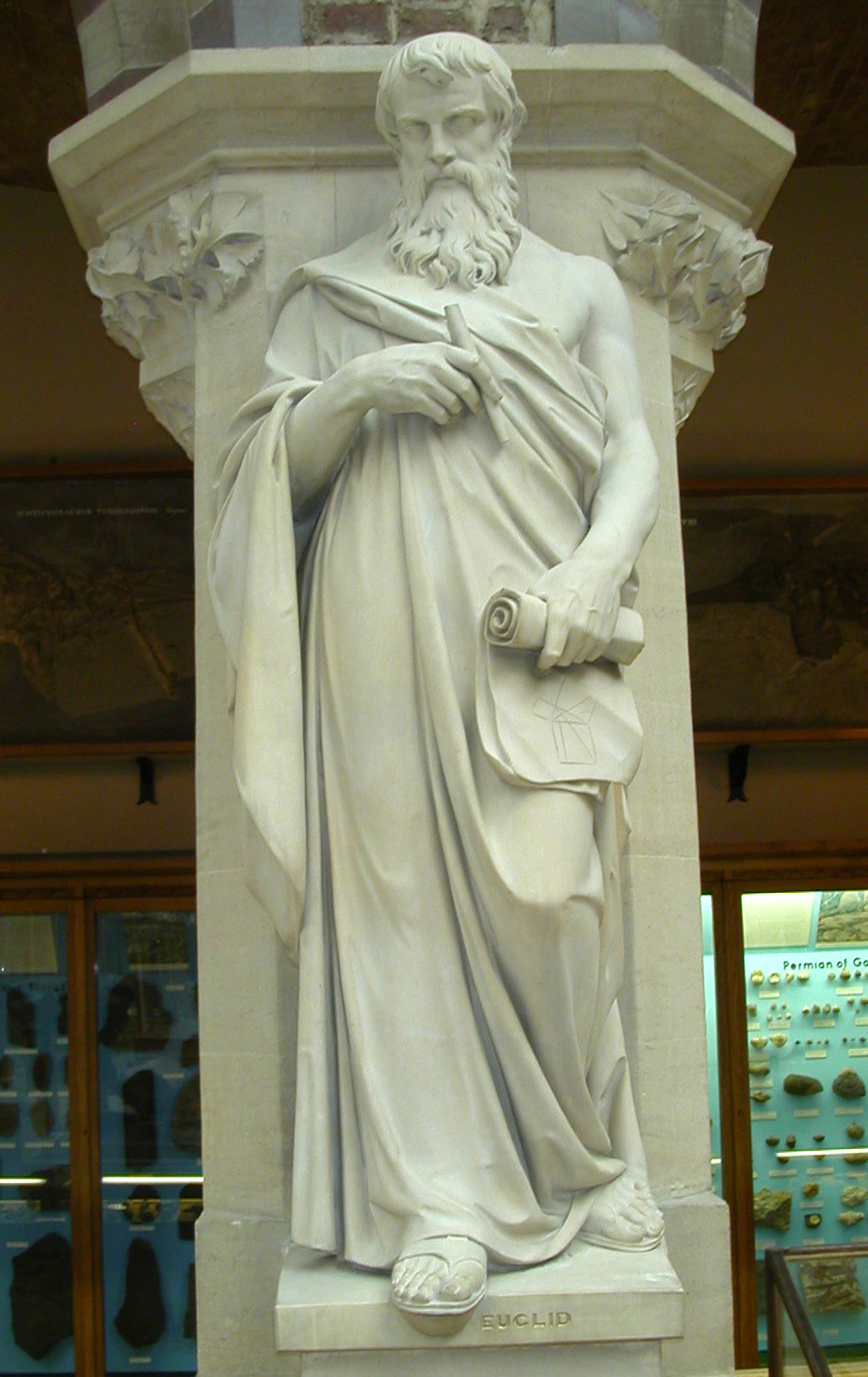 20th Century Statue of Euclid by Joseph Durham in the Oxford University Museum of Natural History.